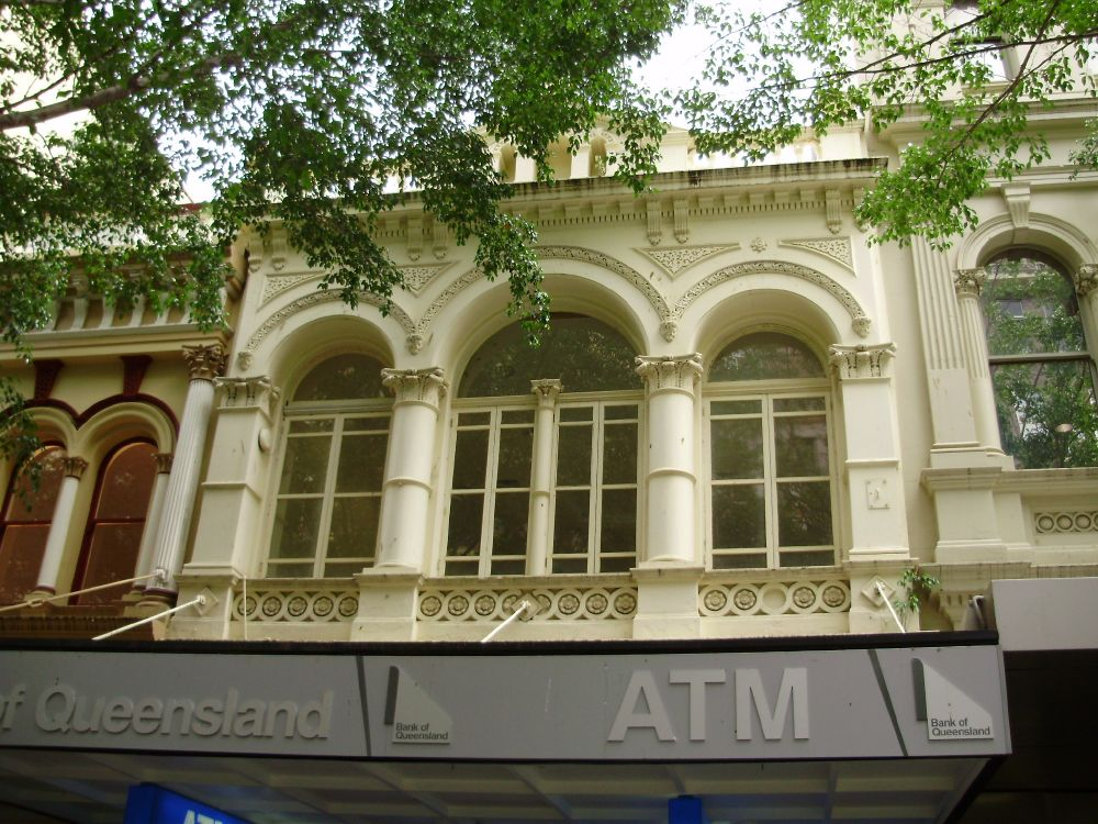 Hardy Brothers, street frontage to Queen St (2009)